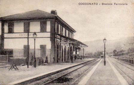 Cocconato railway station